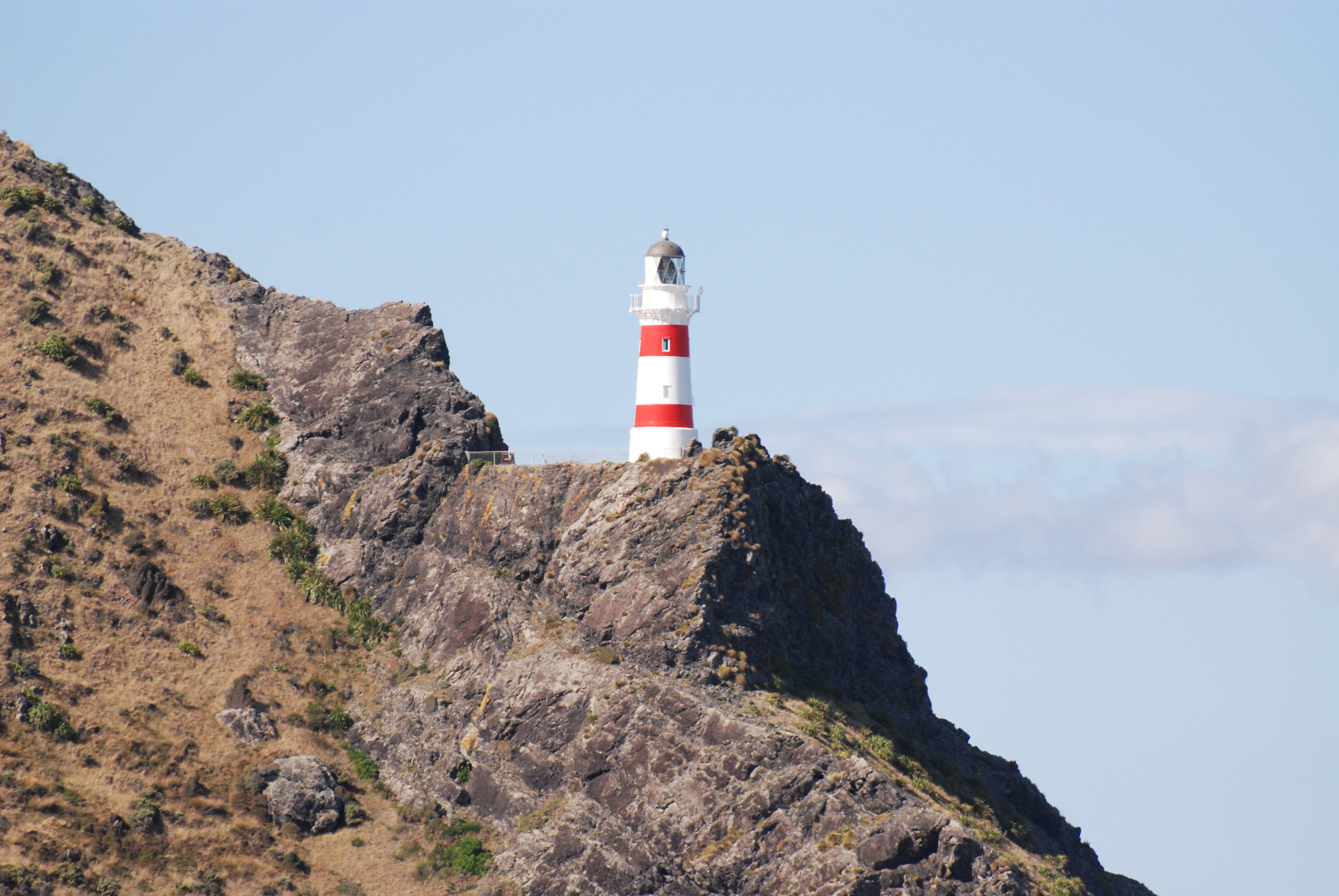 Cape Palliser Lighthouse